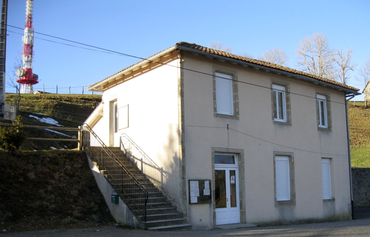 Town hall of Labastide-du-Haut-Mont in Lot department in France